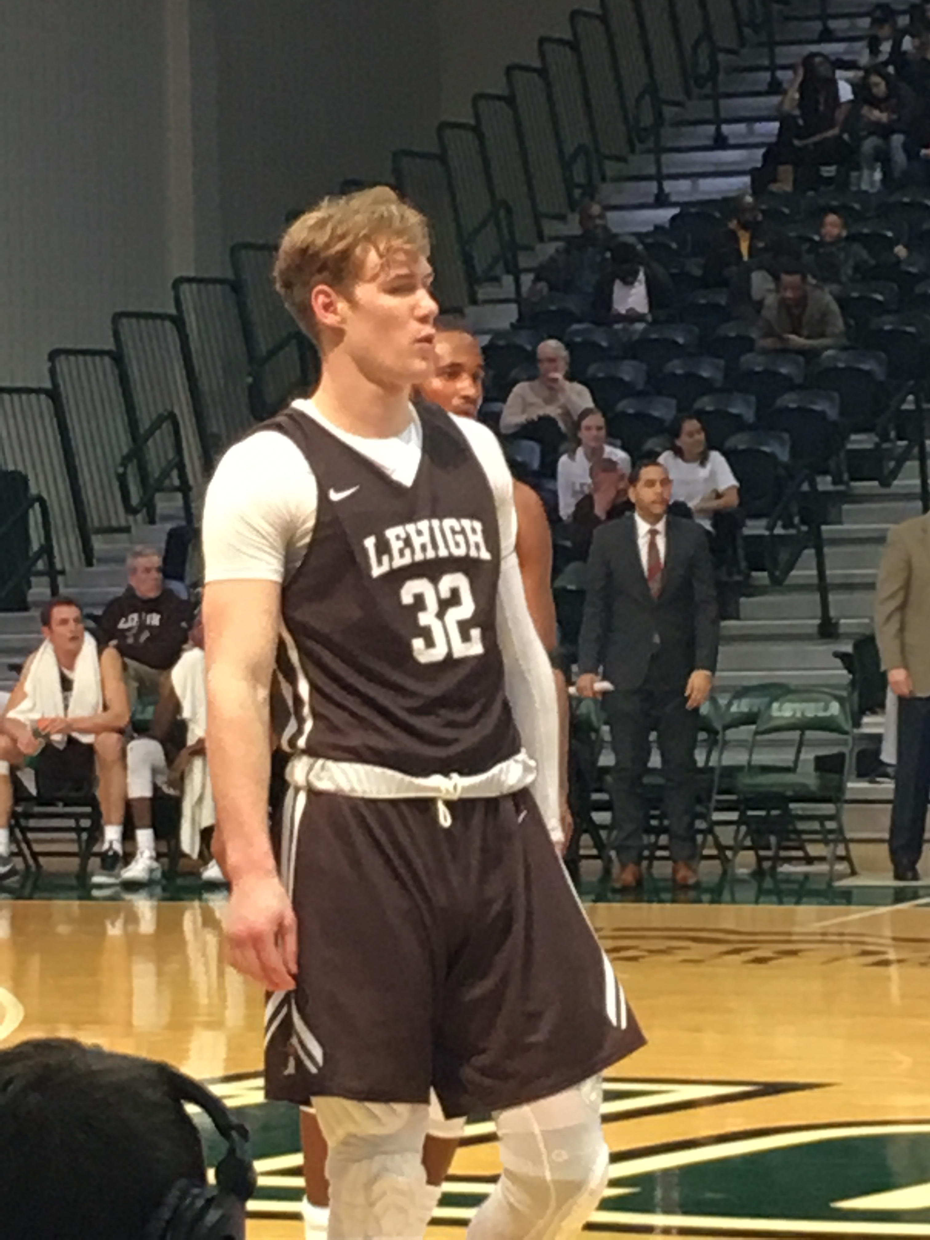 Lehigh senior Tim Kempton in a game at Loyola in February, 2017